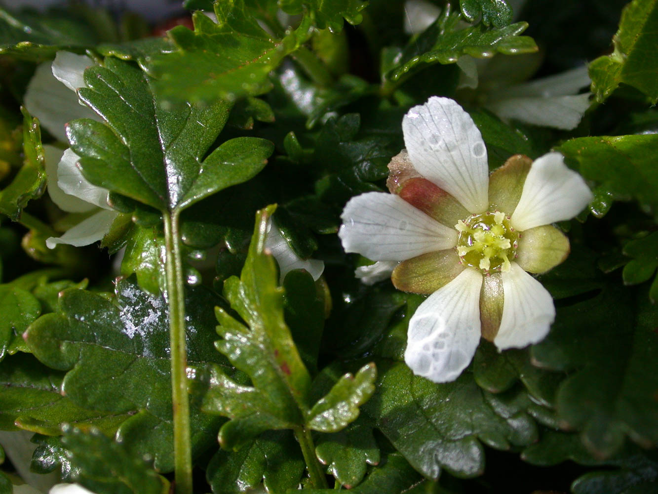 Rubus gunnianus flower, photo: R. Wiltshire